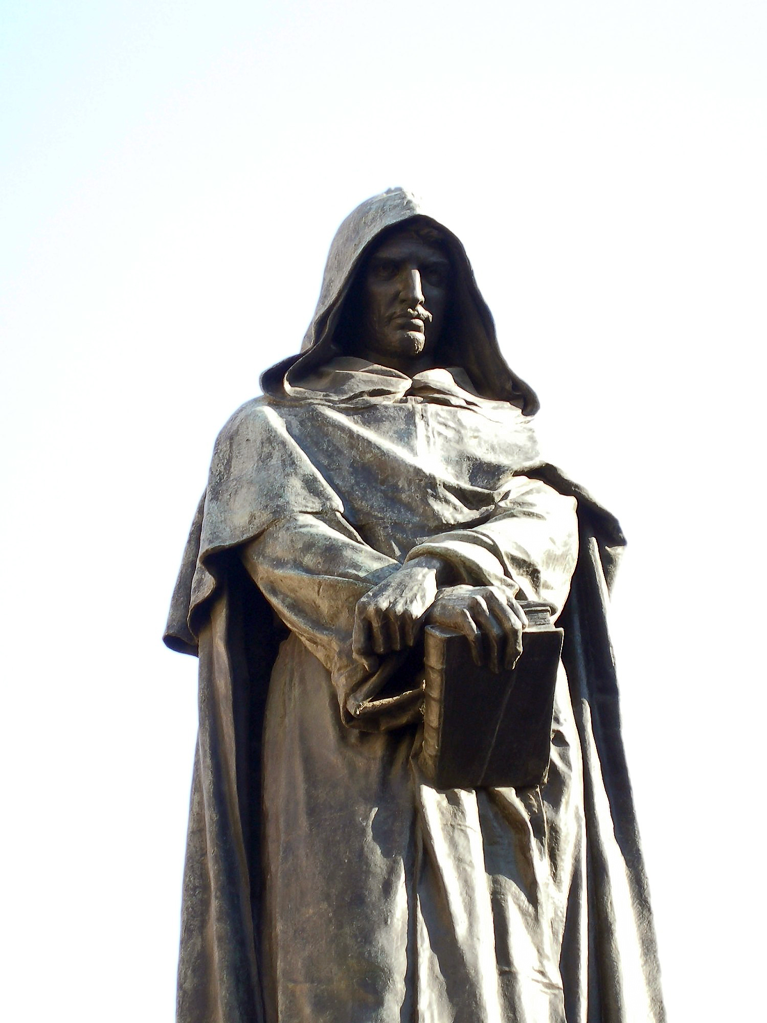 Close-up of the statue of Giordano Bruno at the Campo de' Fiori, Rome. Photo heavily over-exposed (the statue is dark).